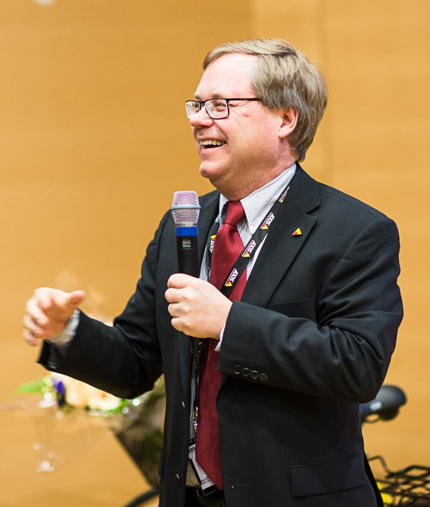 Martin Gren, Co-founder of Axis Communications